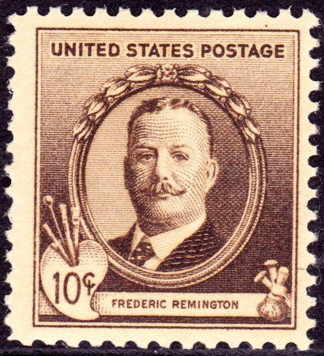 Frederic_Remington_1940_Issue-10c.jpg